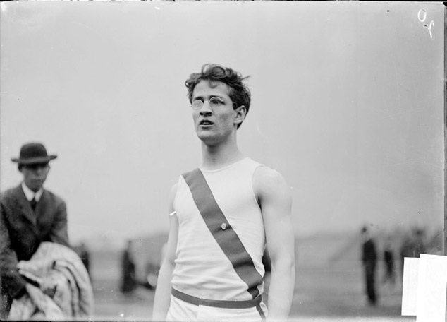 Athlete Frank Waller Chicago Daily News negatives collection, SDN-002350A. Courtesy of the Chicago Historical Society. Taken in 1904 (